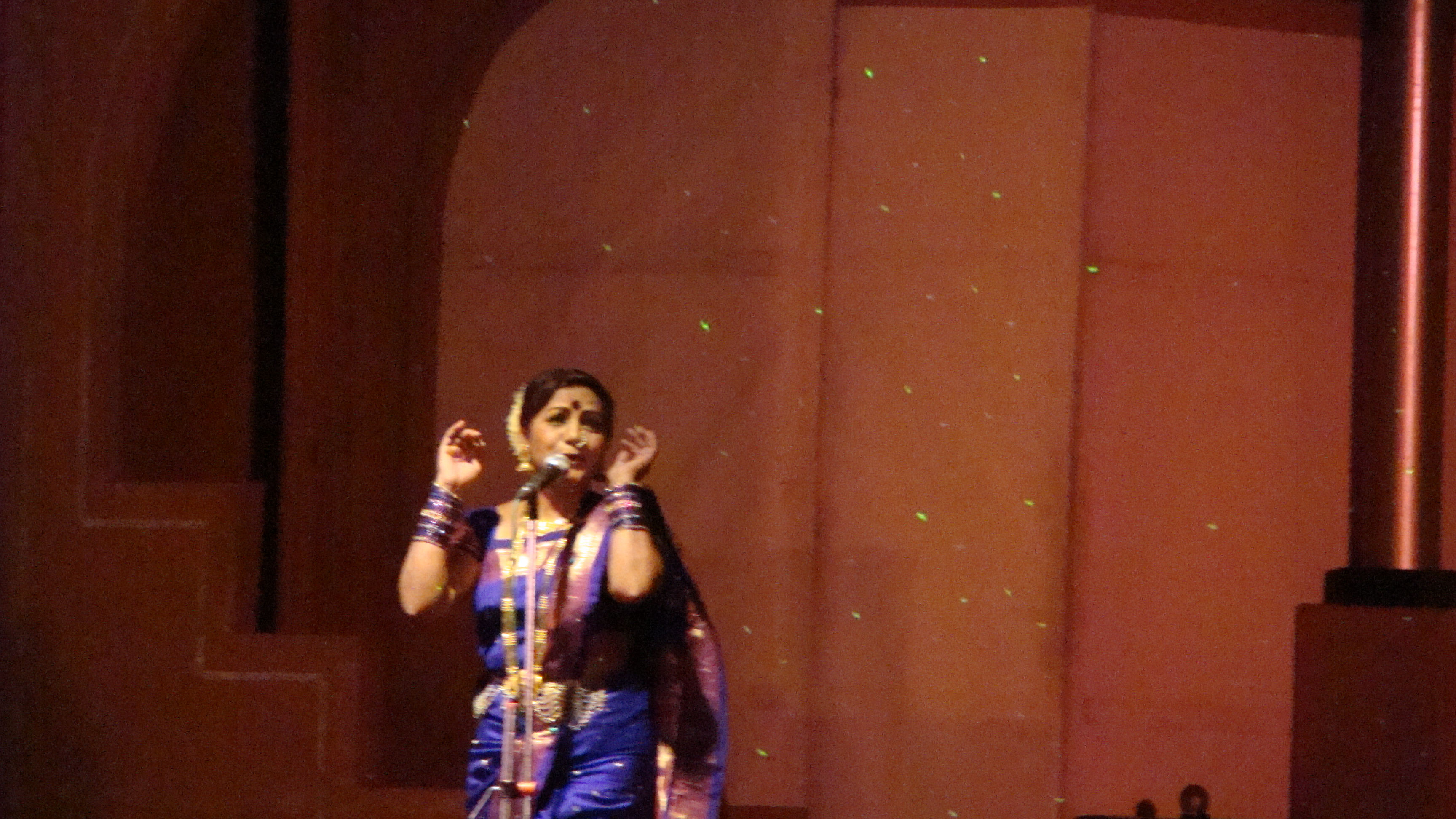 Famous Lavani Dancer Surekha Punekar can be seen in image